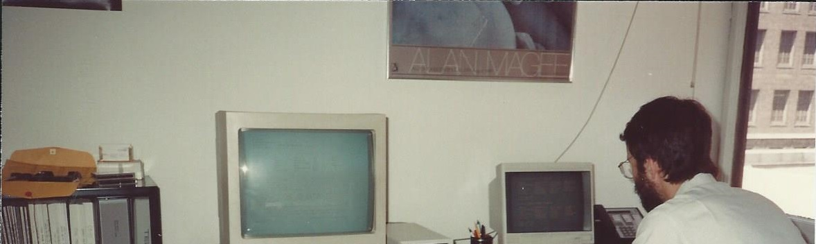 A scene and view within the 417 Fifth Avenue offices of InterACT, a software company located at this address in New York from 1989 to 1991. Both a Sun 3 workstation and a VT-220 compatible terminal can be seen. The view is of an adjacent building.